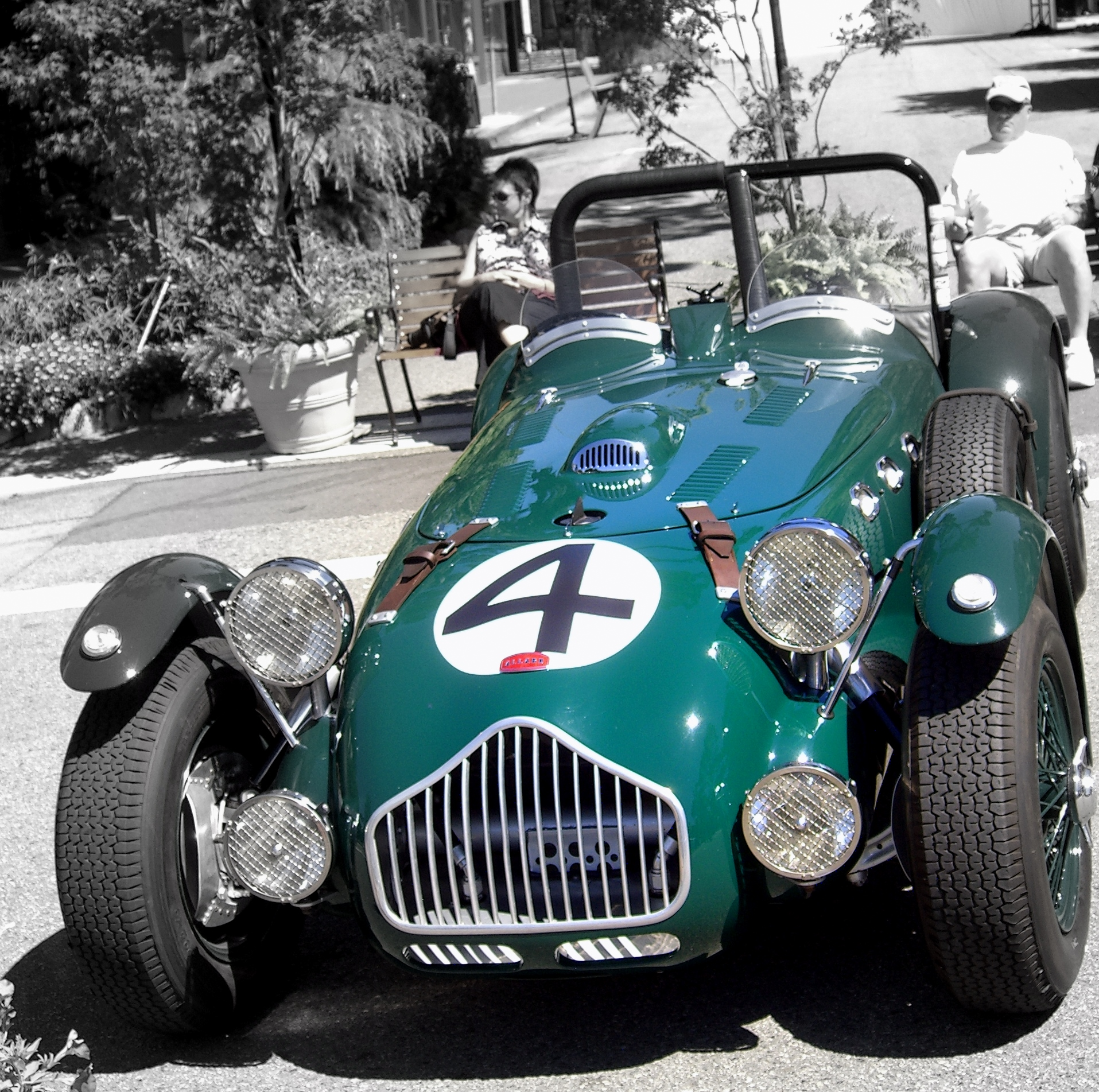 1950 Allard J2